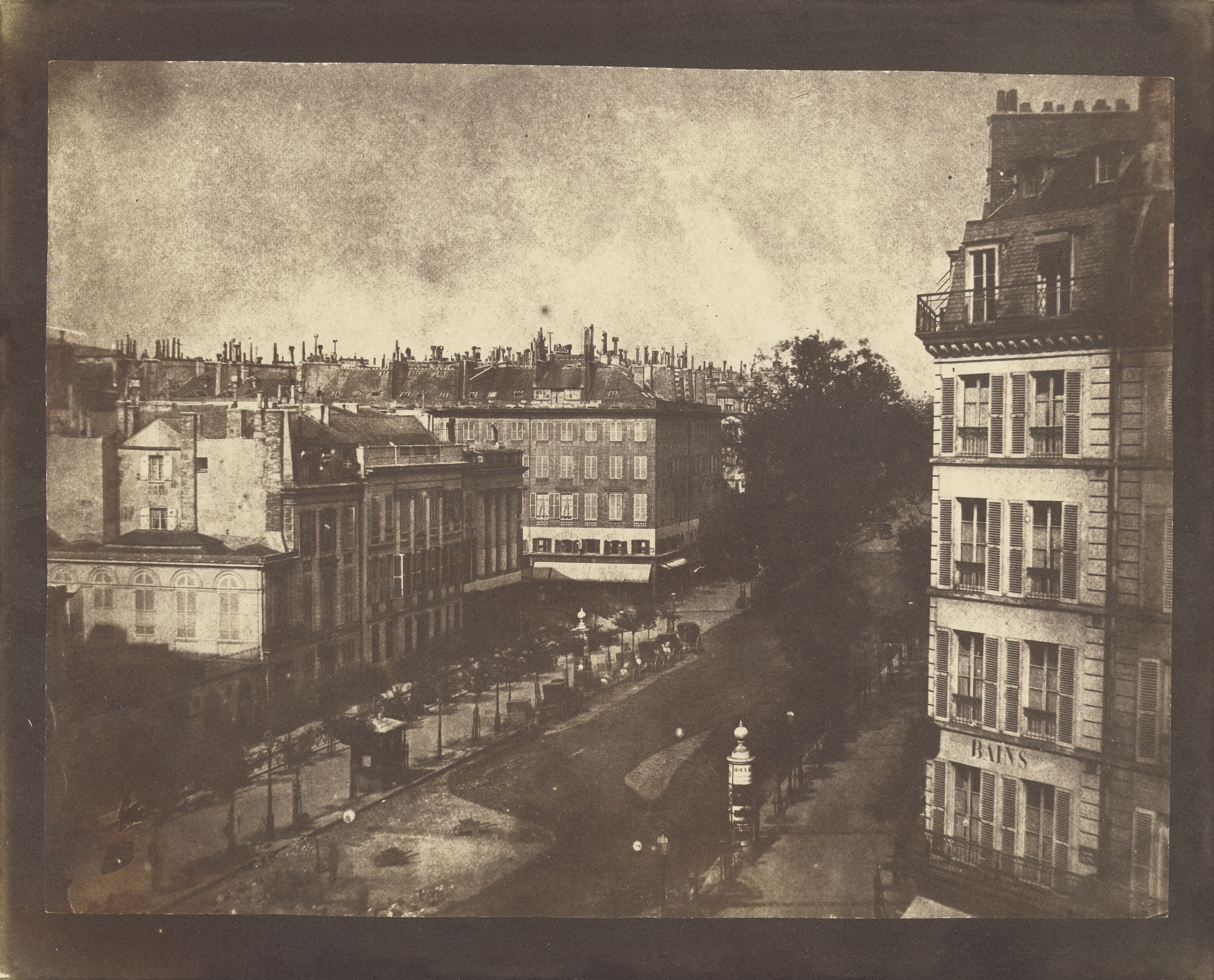 In the text accompanying this image, the second plate in William Henry Fox Talbot's The Pencil of Nature, Talbot commented upon the egalitarian nature of photography: "the instrument chronicles whatever it sees, and certainly would delineate a chimney-pot or a chimney-sweeper with the same impartiality as it would the Apollo of Belvedere." Each print in the book, the first commercially published book to be illustrated with photographs, was an original photograph, tipped in, or glued, to its page. On a spring afternoon in Paris, Talbot photographed the street from his hotel, sufficiently high up to provide a sweeping view of the city's spiky rooftops. The streets have just been wetted down to reduce the dust stirred up from the unpaved road. Although the calotype shortened exposure times, the ghost images of carriages that moved on the boulevard during the exposure betray the still-lengthy exposure.